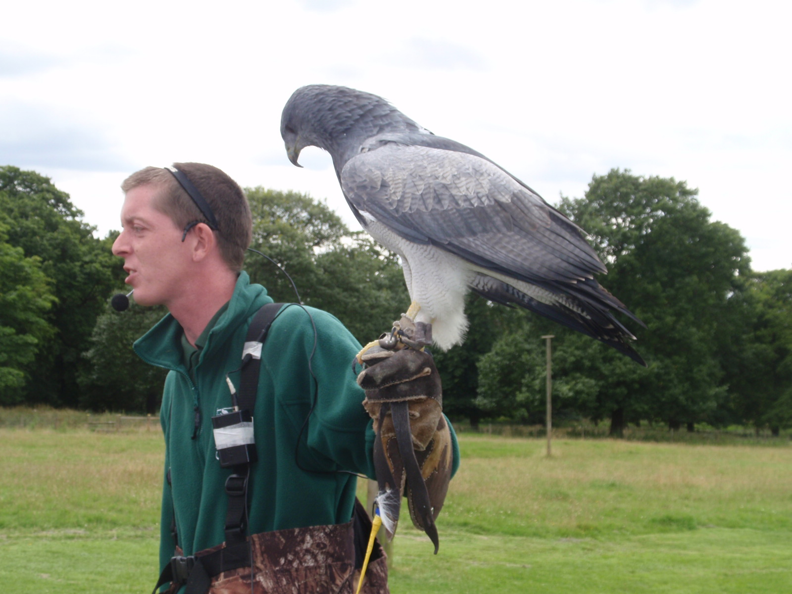 A Black-chested Eagle-buzzard at Knowsley Safari Park, Merseyside, England.